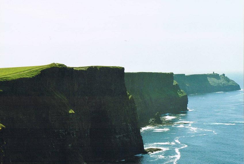 Cliffs Of Moher